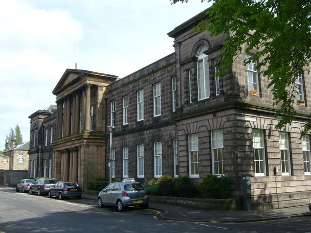 Edinburgh Geographical Institute was built in Duncan Street in 1910. This title was used by the map-making and publishing firm of Bartholomew, and these were their premises. Several generations of Bartholomews made notable contributions to cartography. The grandfather, as Geographer and Cartographer Royal, founded the Royal Scottish Geographical Society in 1884. He introduced layer colouring for relief representation in maps, of which an outstanding example was the Society's Atlas of Scotland published in 1895. John George Bartholomew (1890-1962) studied cartography at Edinburgh, Leipzig and Paris. His fame rested upon his Times Survey Atlas of the World, published posthumously in 1921. He was also a major benefactor of the University's Geography Department where he funded a chair of Geography. He succeeded his father as honorary Secretary of the R.S.G.S., a post he held for thirty years.